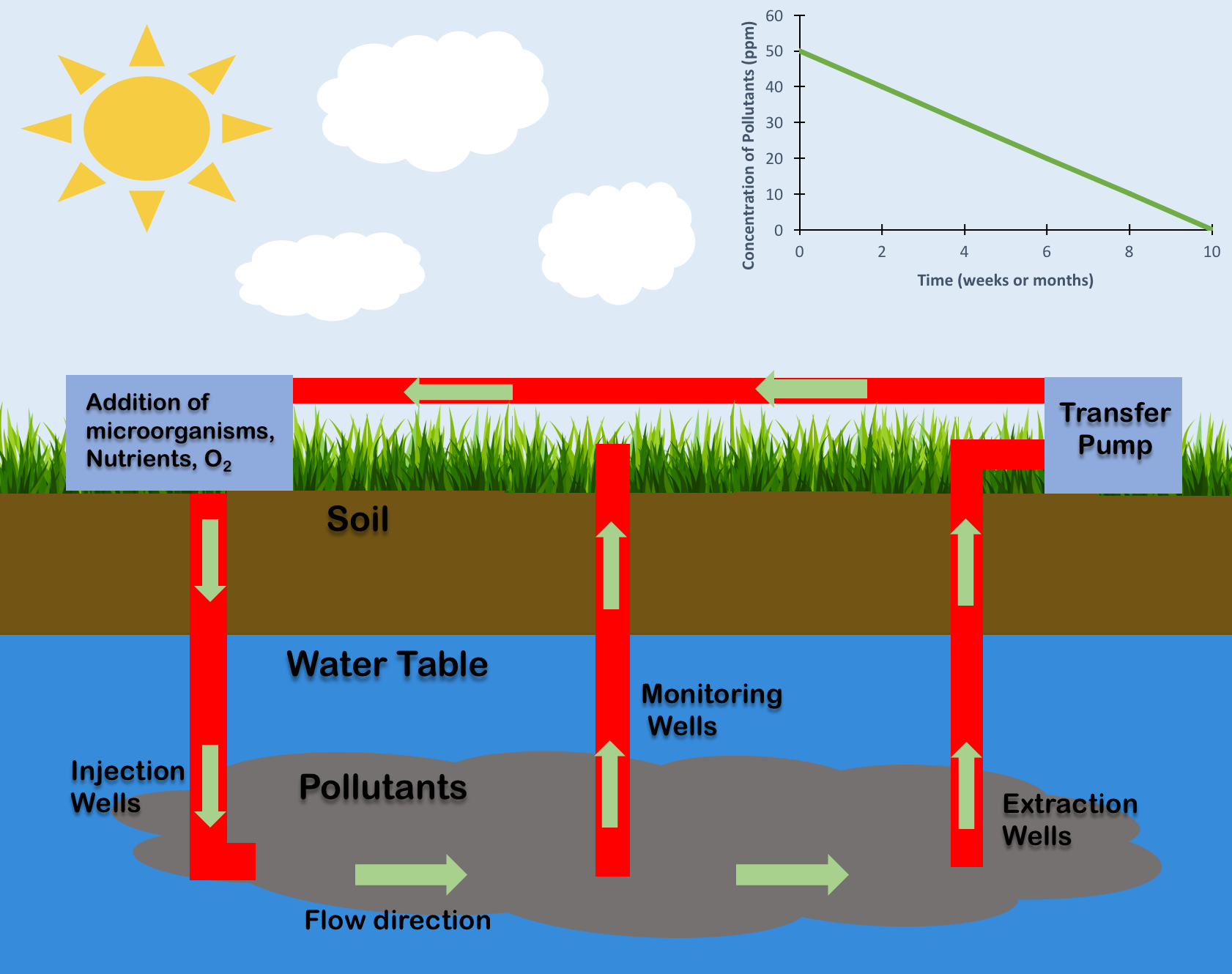 In Situ Bioremediation involves the addition of gases, nutrients, or microbes into soil in order to extract pollutants.[1] Often contaminants include spills from underground pipes or buried wastes that leak into groundwater.[2] Injection wells, monitoring wells, and extraction wells recirculated water until the concentration of pollutants decreases and the clean water can be utilized. Injecting O2 detoxifies the pollutants typically to carbon dioxide and water. The chart in the upper right hand corner depicts a sample trend for the concentration of pollutants over several weeks or months. 1. Jørgensen, K. S. (2007). In situ bioremediation. Advances in applied microbiology, 61, 285-305. 2. Jørgensen, K. S. (2007). In situ bioremediation. Advances in applied microbiology, 61, 285-305.